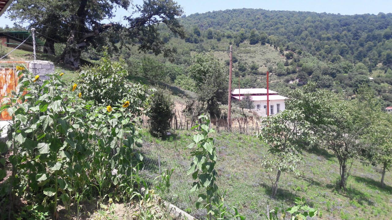 Vali Chal